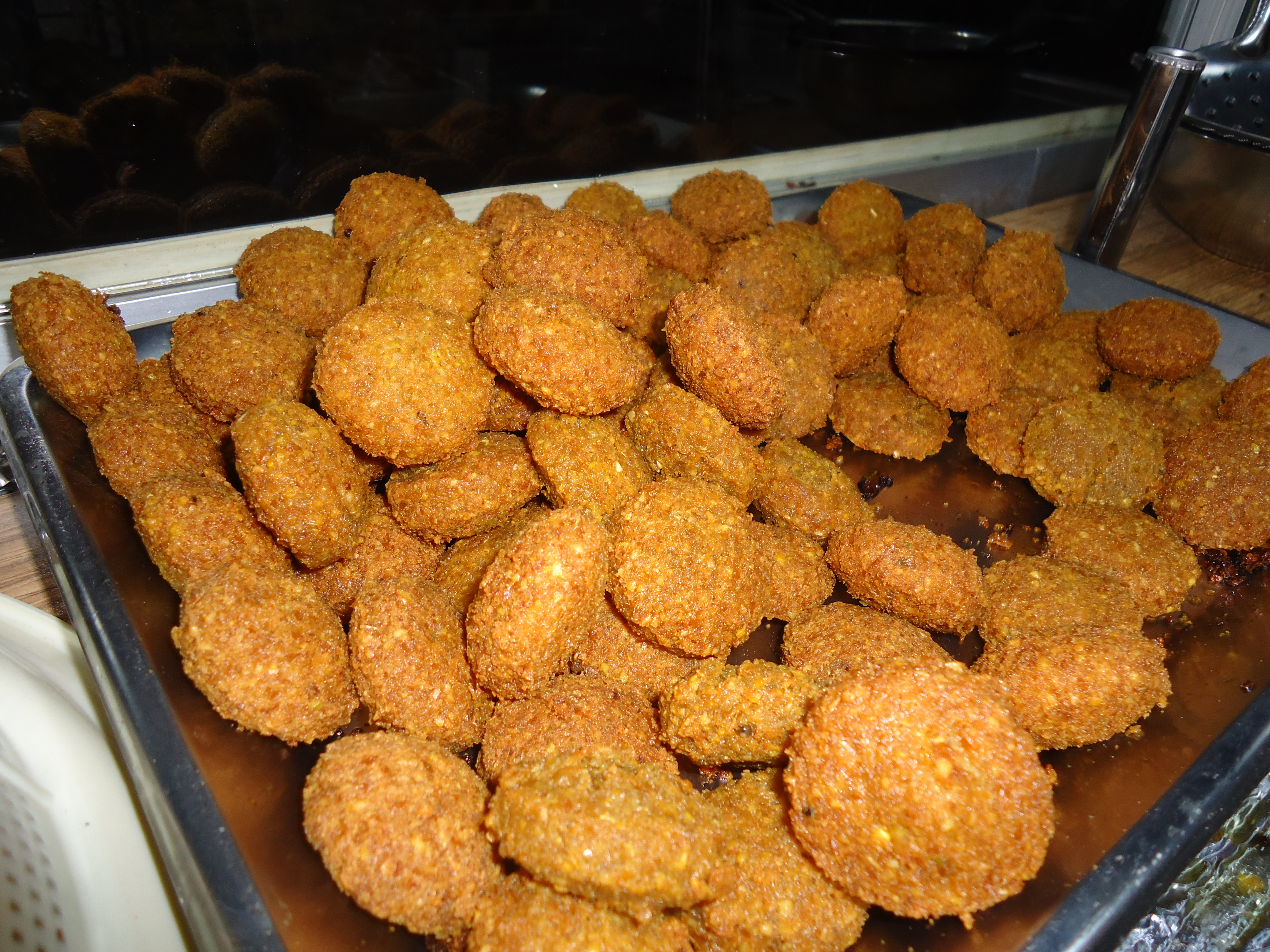 Falafel